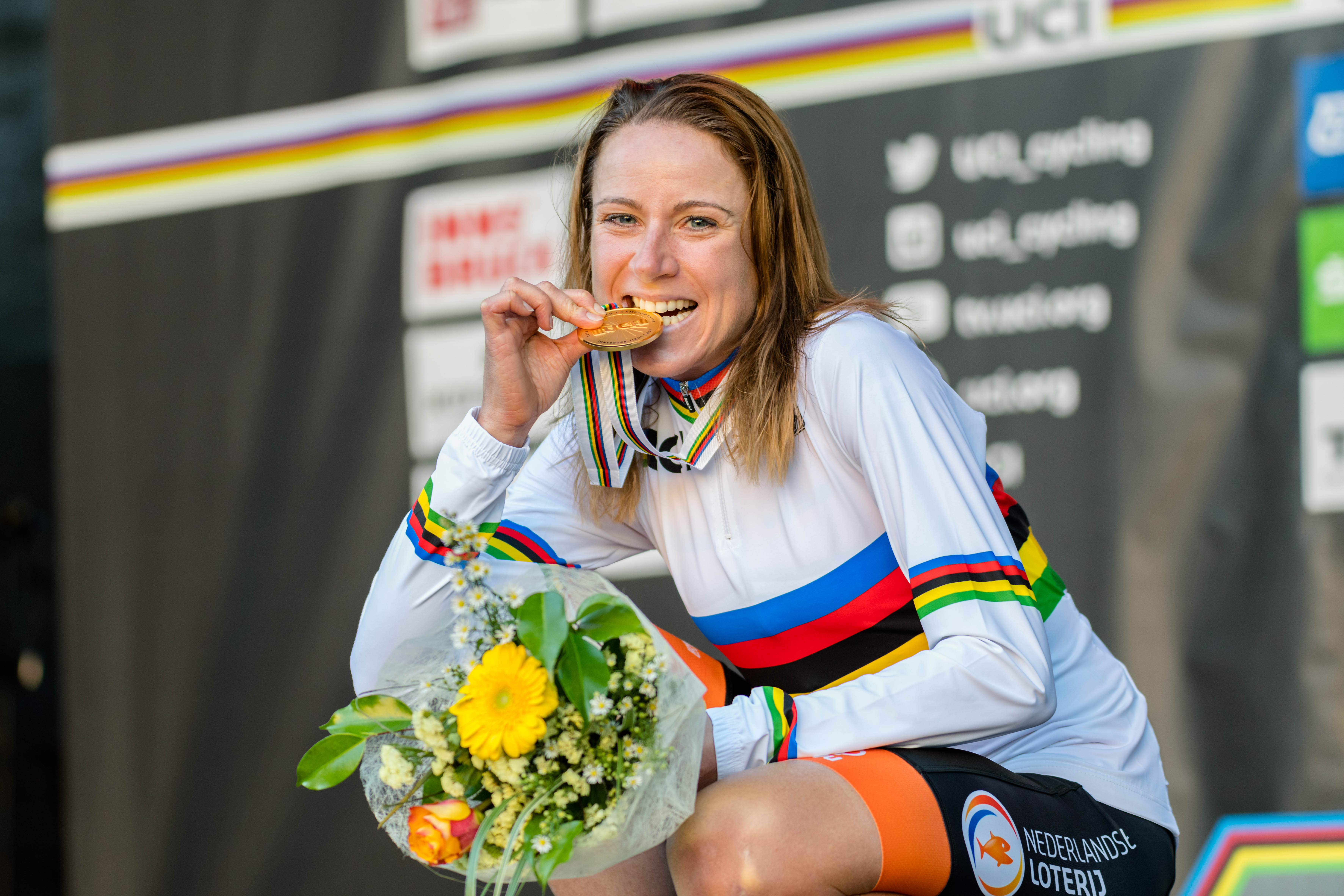 2018 UCI Road World Championships Innsbruck/Tirol Women Elite Individual Time Trial. Picture shows: Annemiek van Vleuten of the Netherlands.